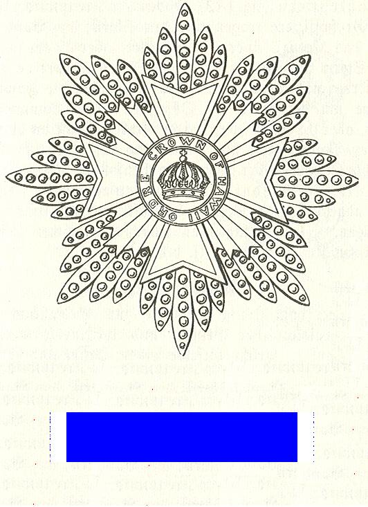 Star and ribbon of the Order of the Crown of Hawaii.